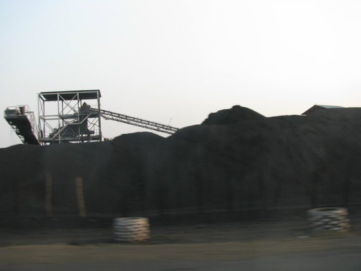 A view of the Moatize Coal Mine.